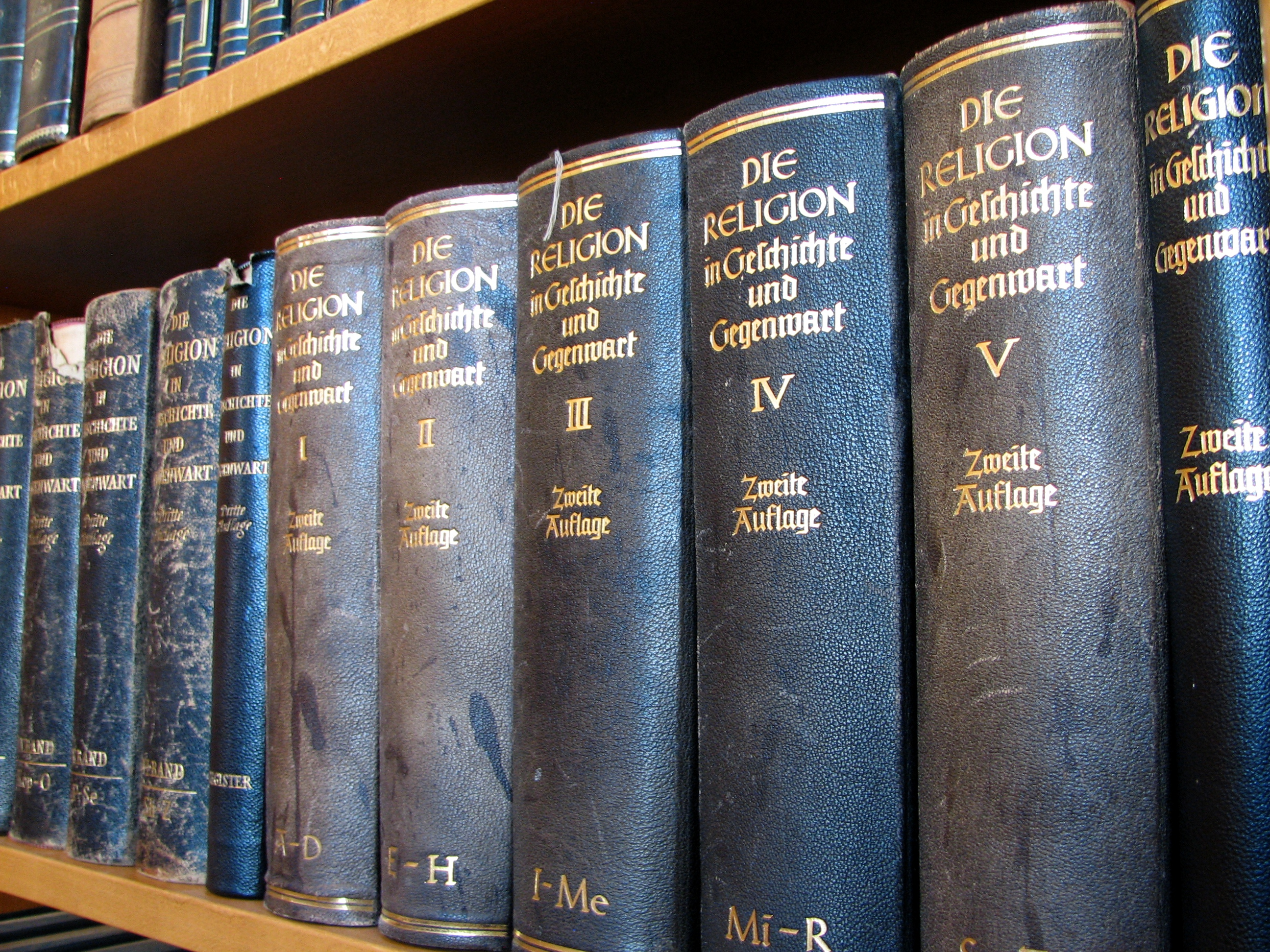 Hermann Gunkel and Leopold Zscharnack (ed.): Die Religion in Geschichte und Gegenwart. Second edition, 1927–1931 .